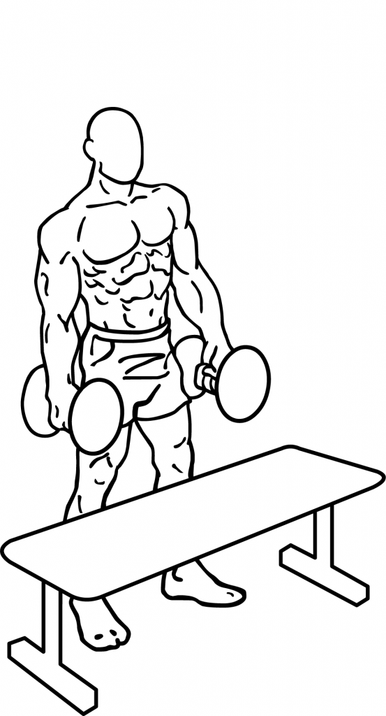 an exercise of hip and thigh